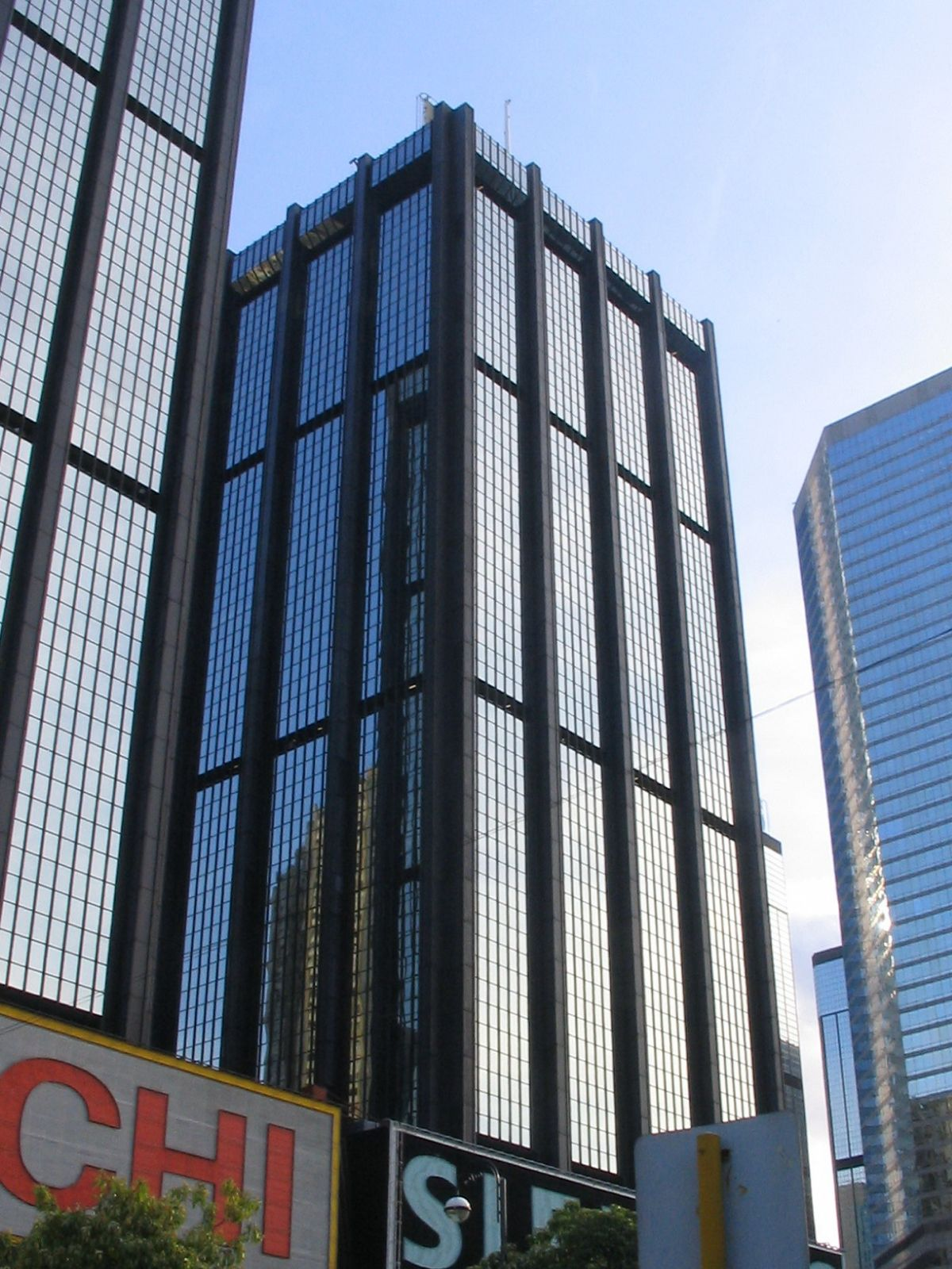 鷹君中心 Great Eagle Centre